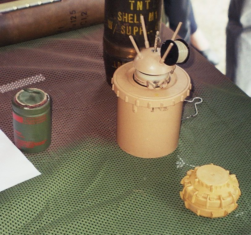 Nation/Defense days, Esplanade des Invalides, Paris, France, September 24-25, 2005